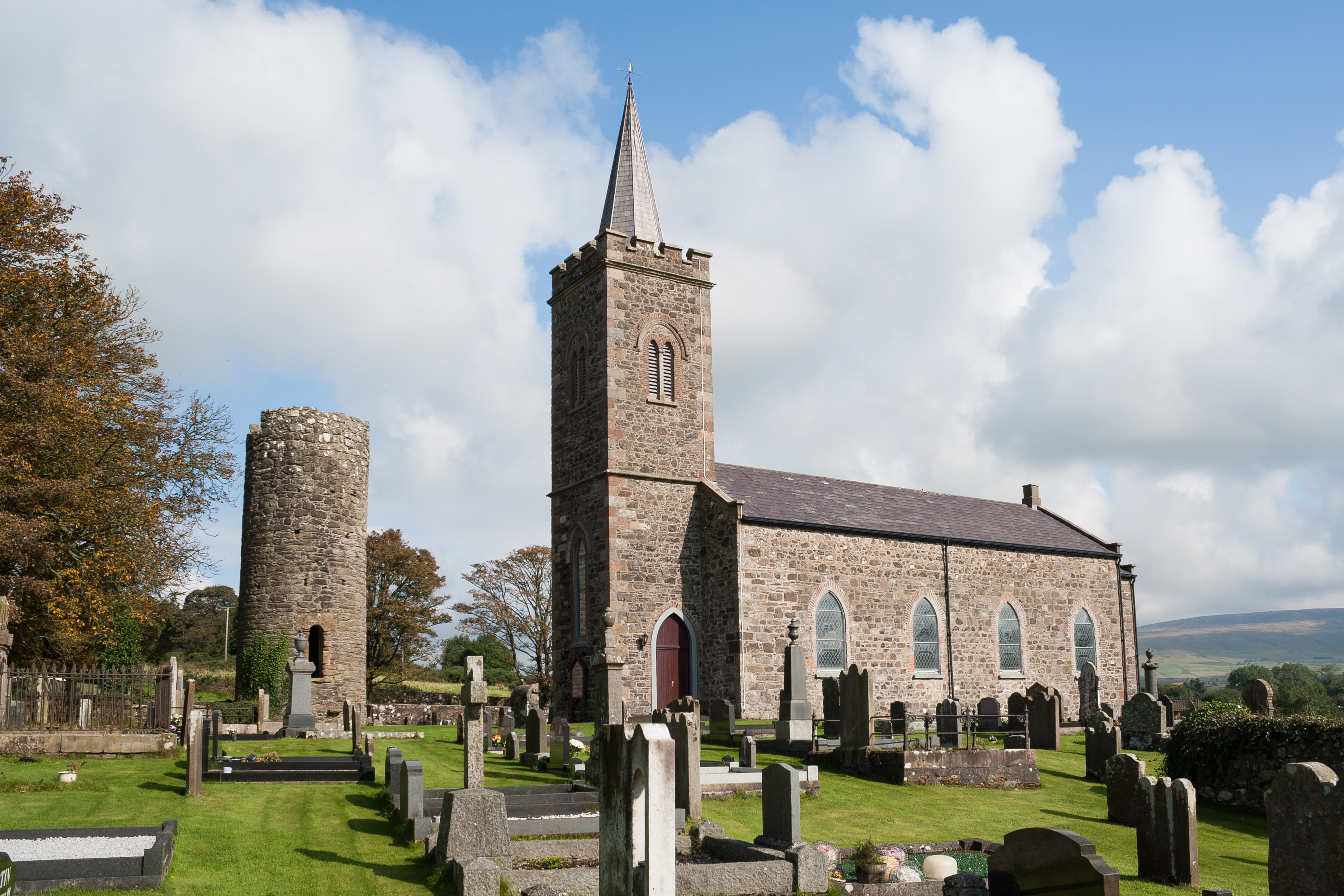 Surviving remains of the round tower and modern church at Armoy in the townland Glebe. This is recorded as a scheduled monument SMR Number ANT 013:010.